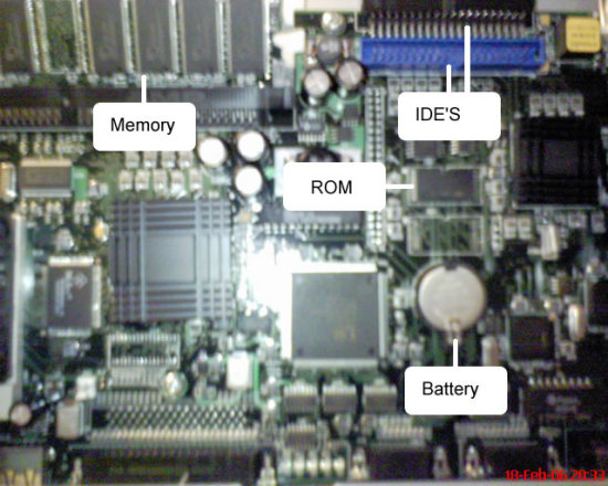 Read Only Memory